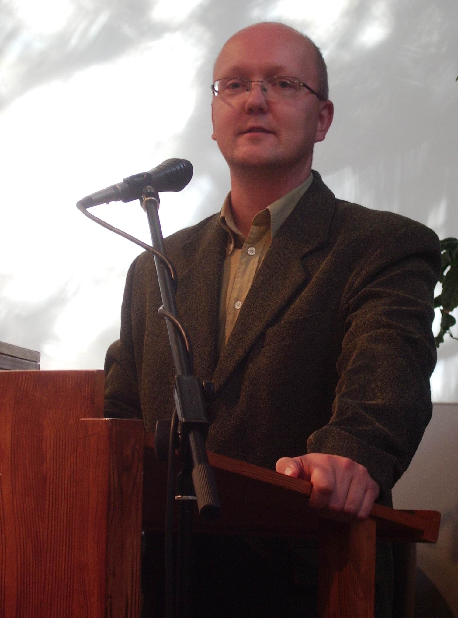 Margus Kask, Baptist cleric of Estonia.